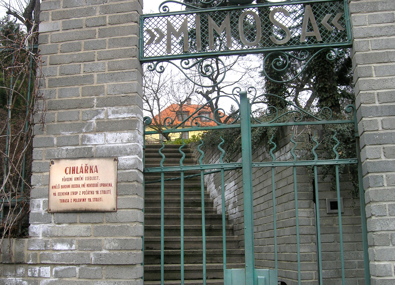 U Mrázovky street, Cihlářka grange, Prague